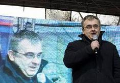 Igor Adamec